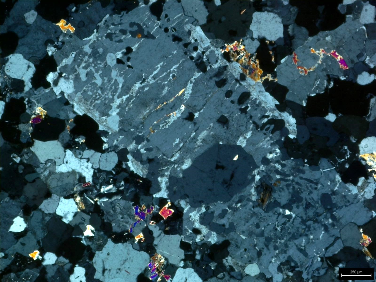 Pressure Quench Texture in the S-type Strathbogie Granite, Australia.